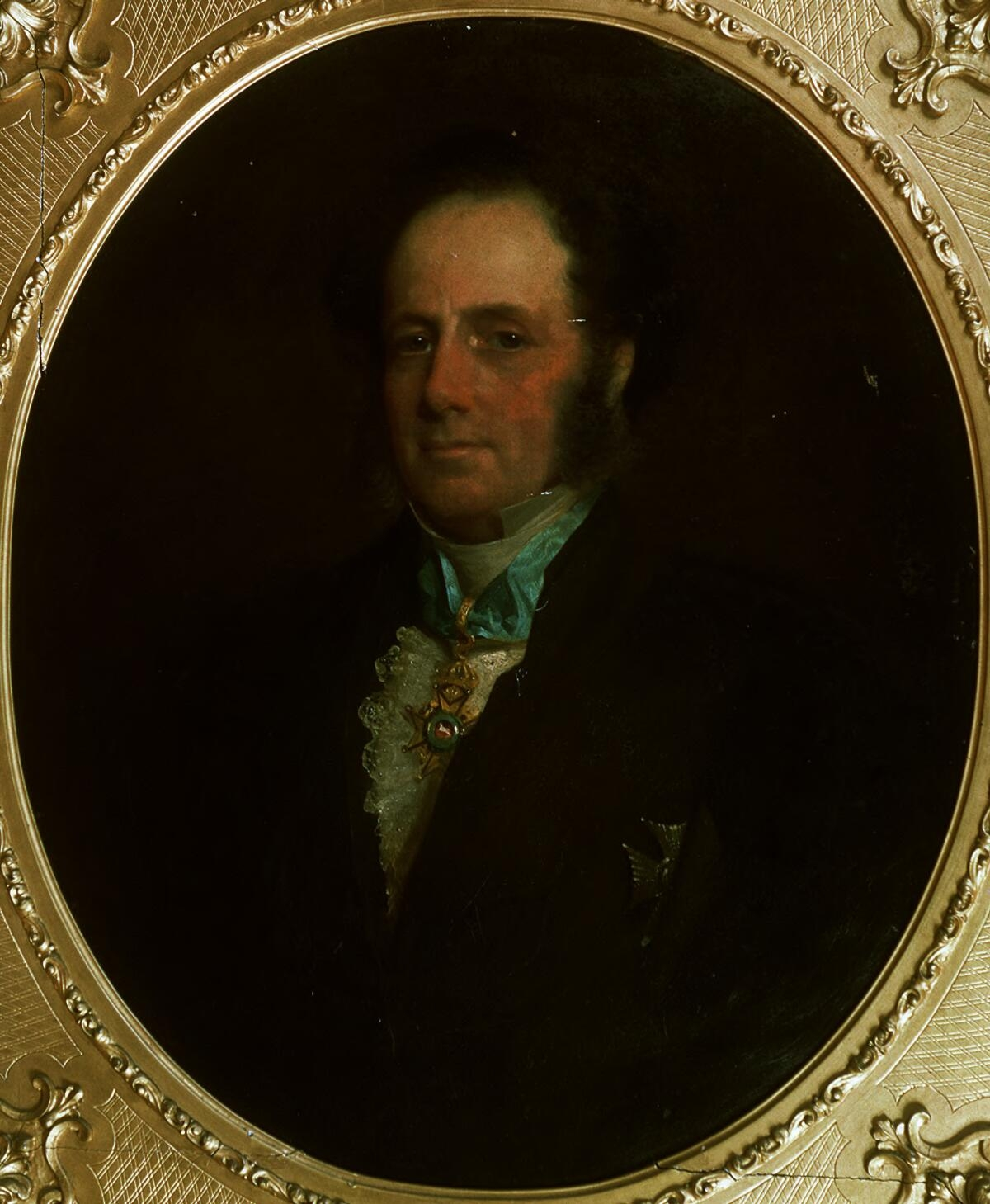 A painting from the Framed Works of Art collection at the National Library of wales.